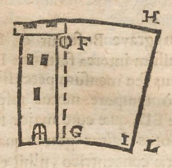 Image of a Tower on a rotating Earth showing Coriolis deflection of the ball to the east of the tower's base.